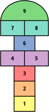 Schematic of an Hopscotch version